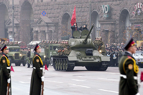 Kiev. Military Parade marking the 60th anniversary of the liberation of Ukraine from Nazi occupation.